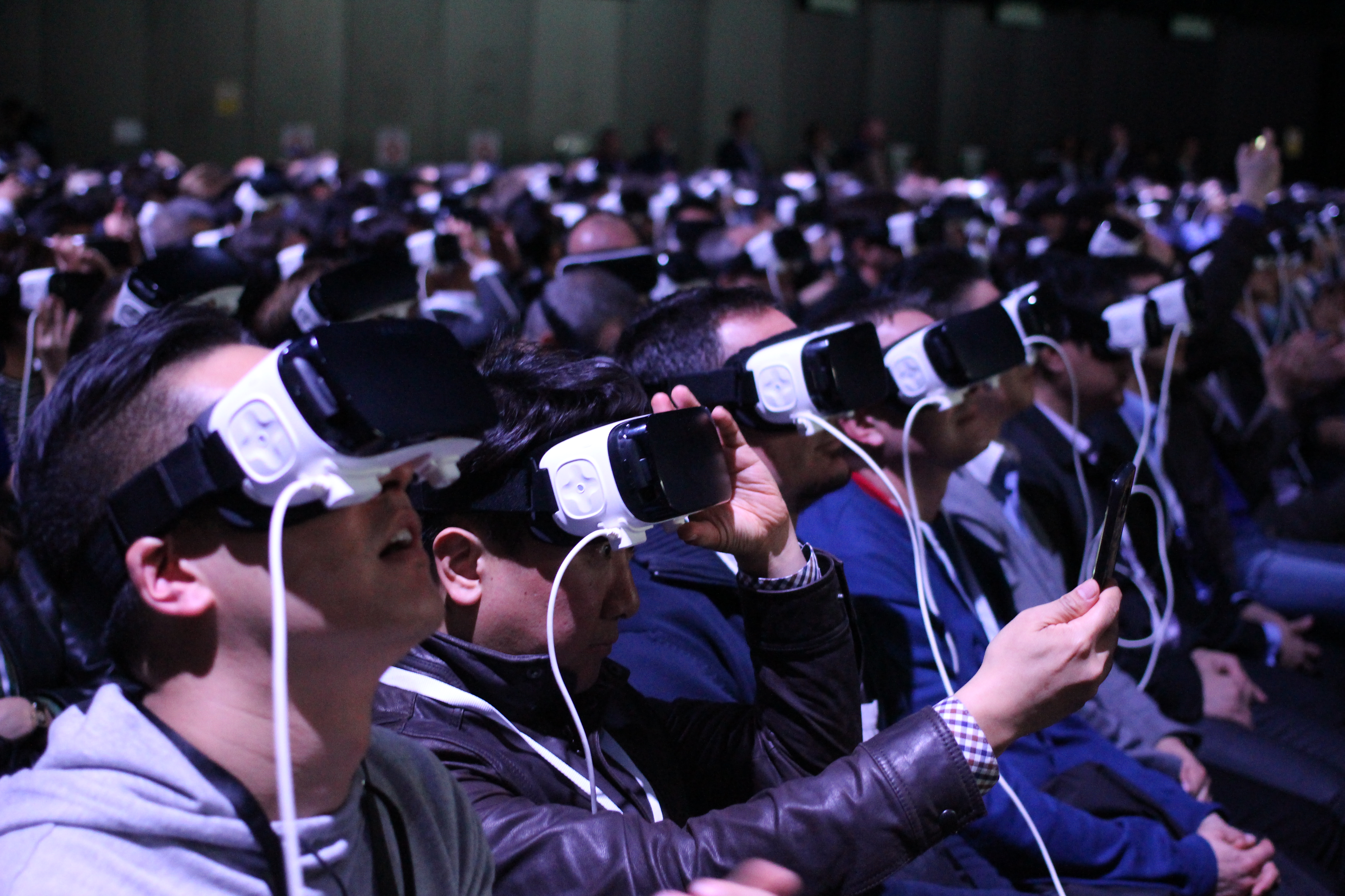 Samsung's Virtual Reality MWC 2016 Press Conference